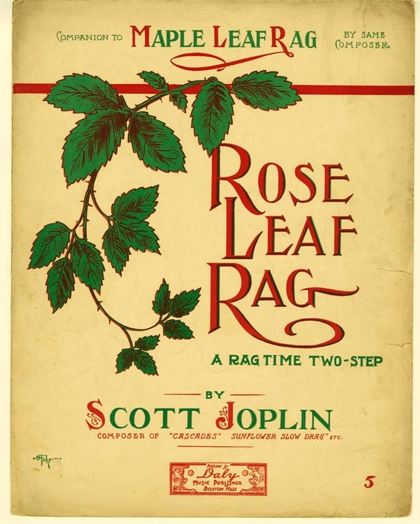 Rose Leaf Rag, A Ragtime Two-Step. By Scott Joplin, 1907.